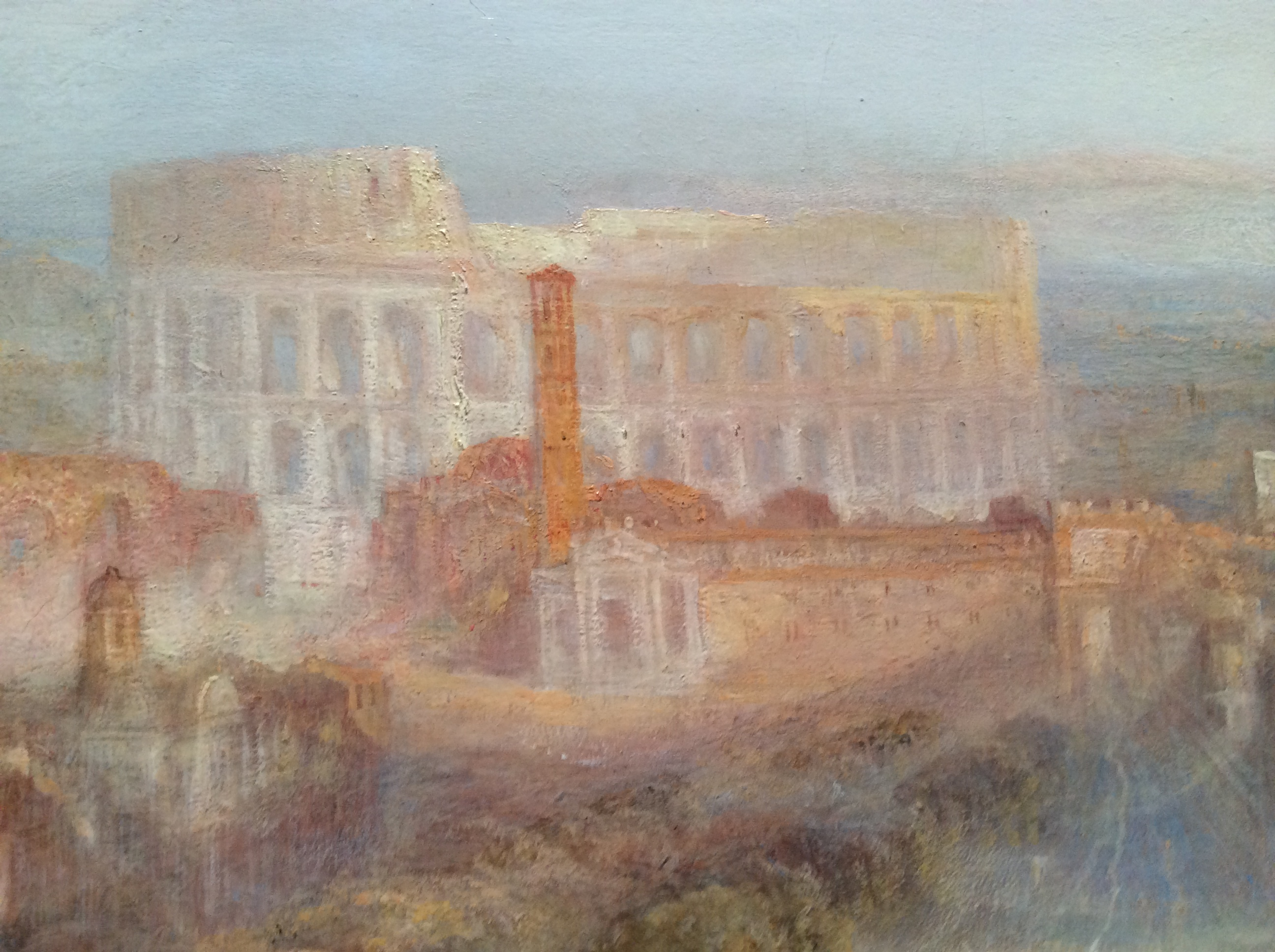 Detail of Joseph Mallord William Turner, Modern Rome-Campo Vaccino